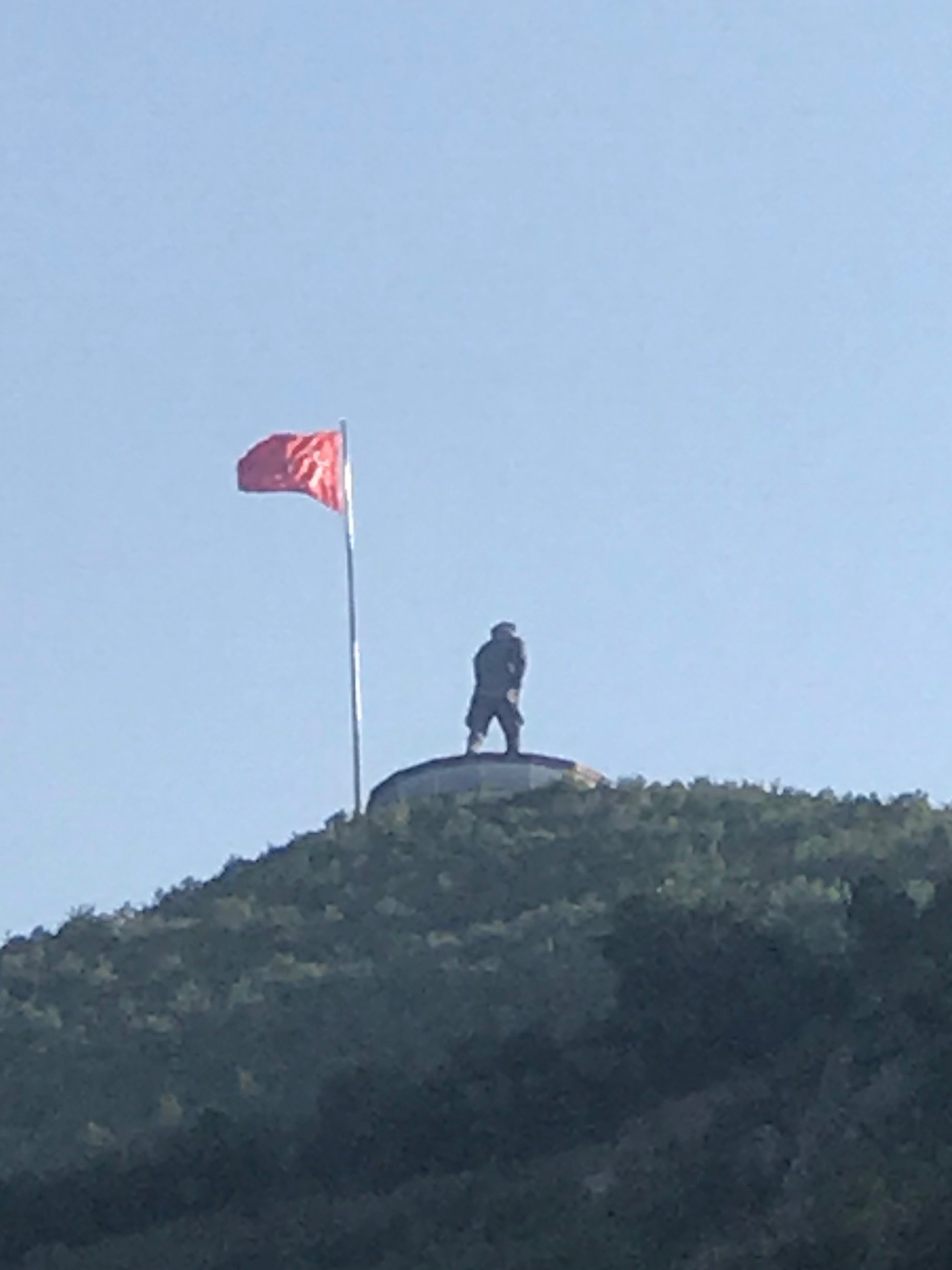 Atatürk Monument as seen from a distance in Artvin, Turkey.